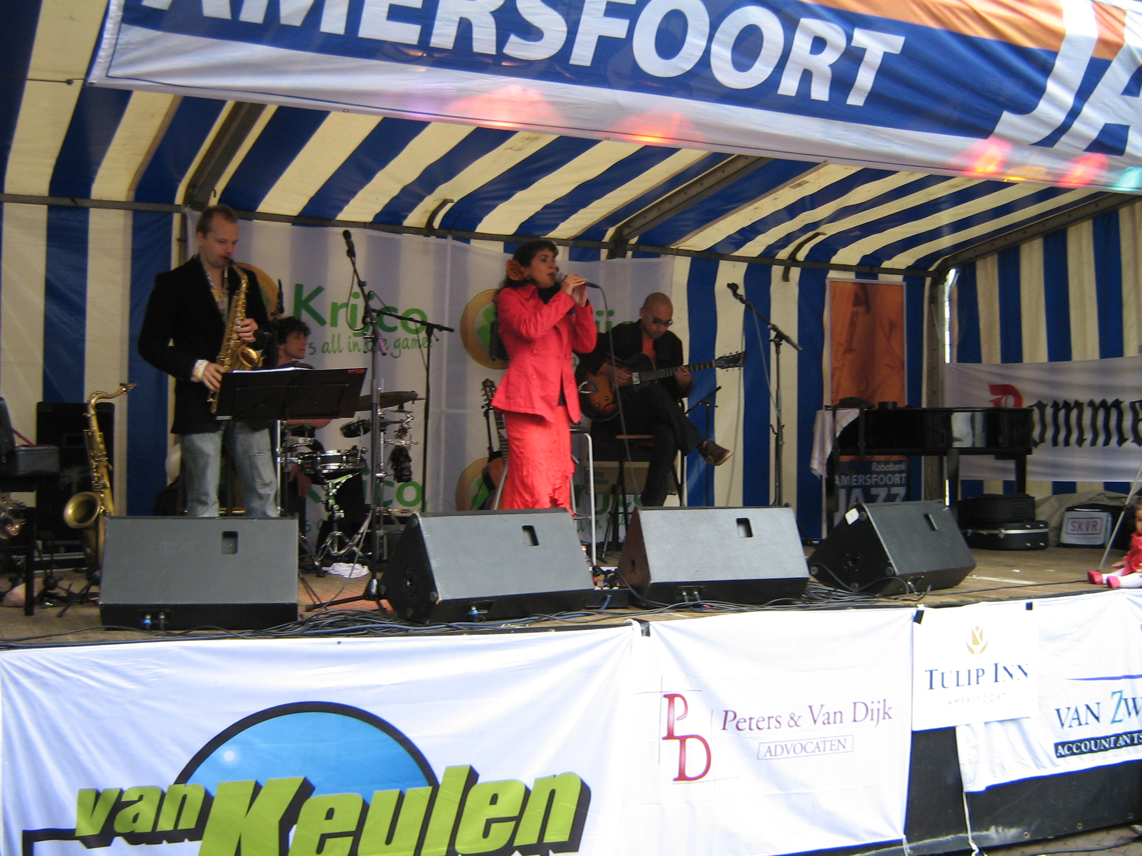 Band Jazz Juice during Amersfoort Jazz festival 2007